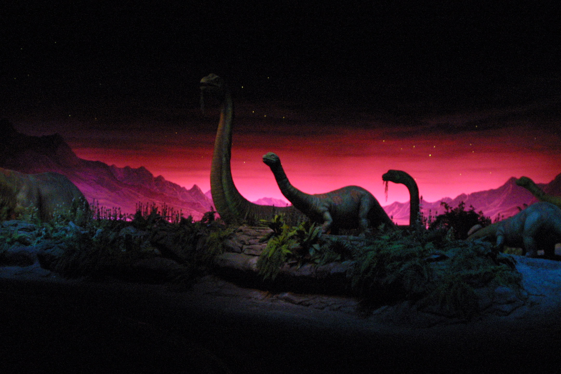 EPCOT Florida - Universe of Energy